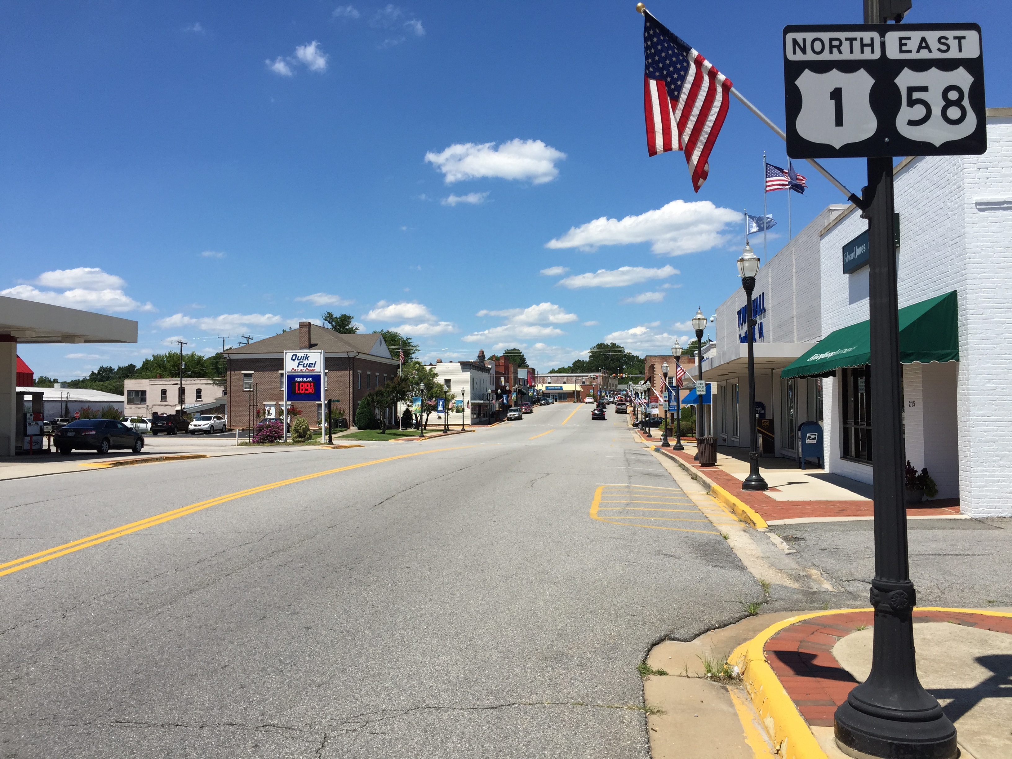 View north along U.S. Route 1 and east along U.S. Route 58 Business (Mecklenburg Avenue) at Danville Street in South Hill, Mecklenburg County, Virginia